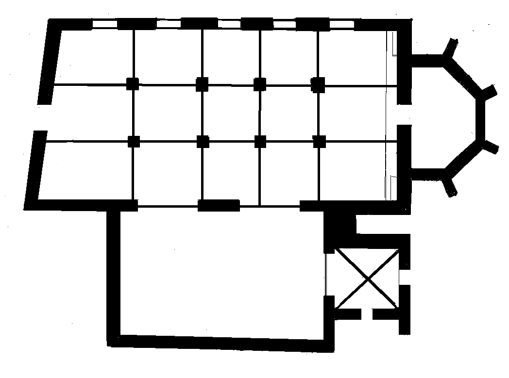 Heilbronn+Deutschordensmünster+als+frühgotische+Wallfahrtskirche+um+1360.PNG